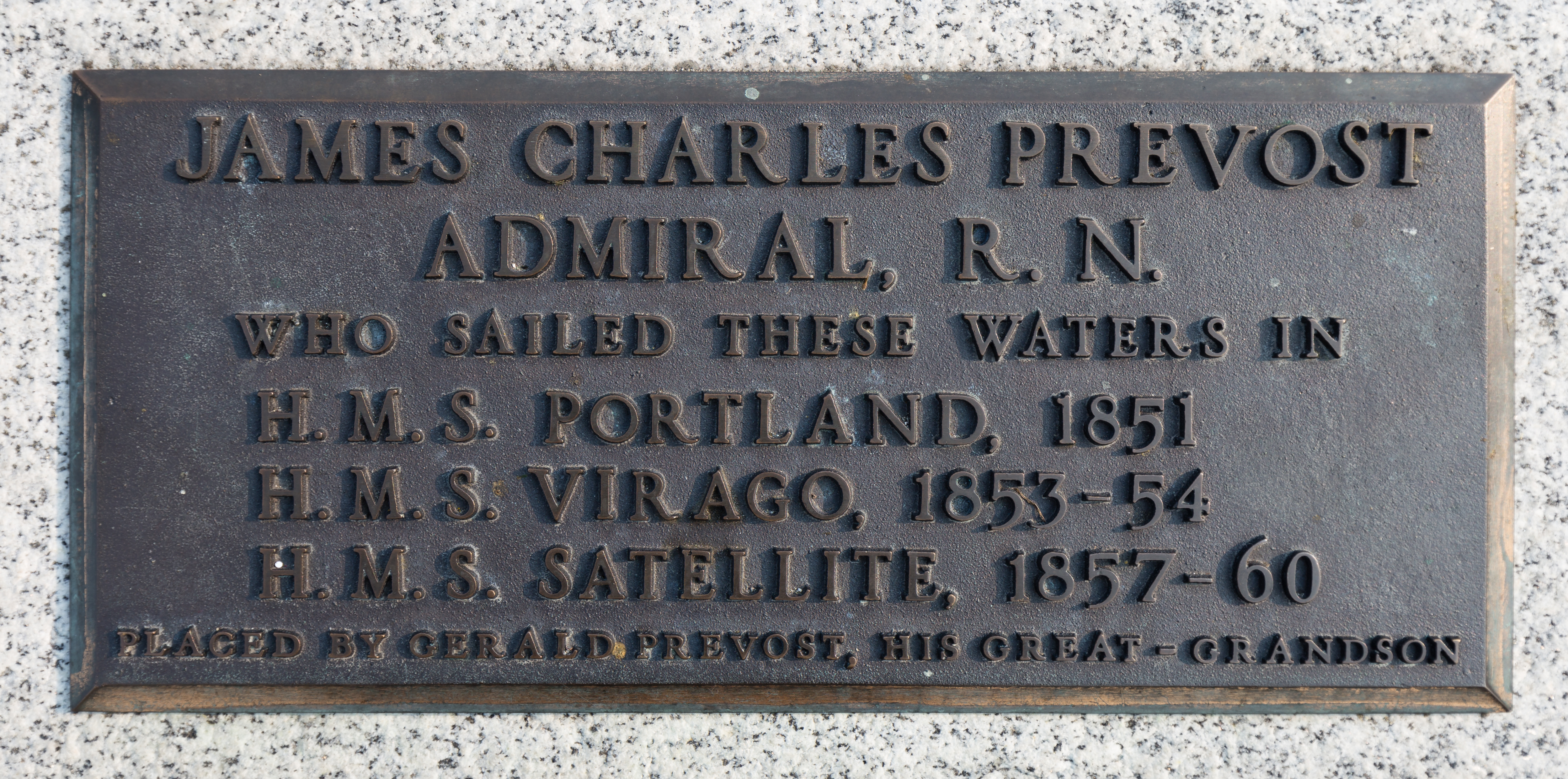 James Charles Prevost Admiral, R.N. One of Causeway Plaques in Victoria Inner Harbour. Victoria, British Columbia, Canada